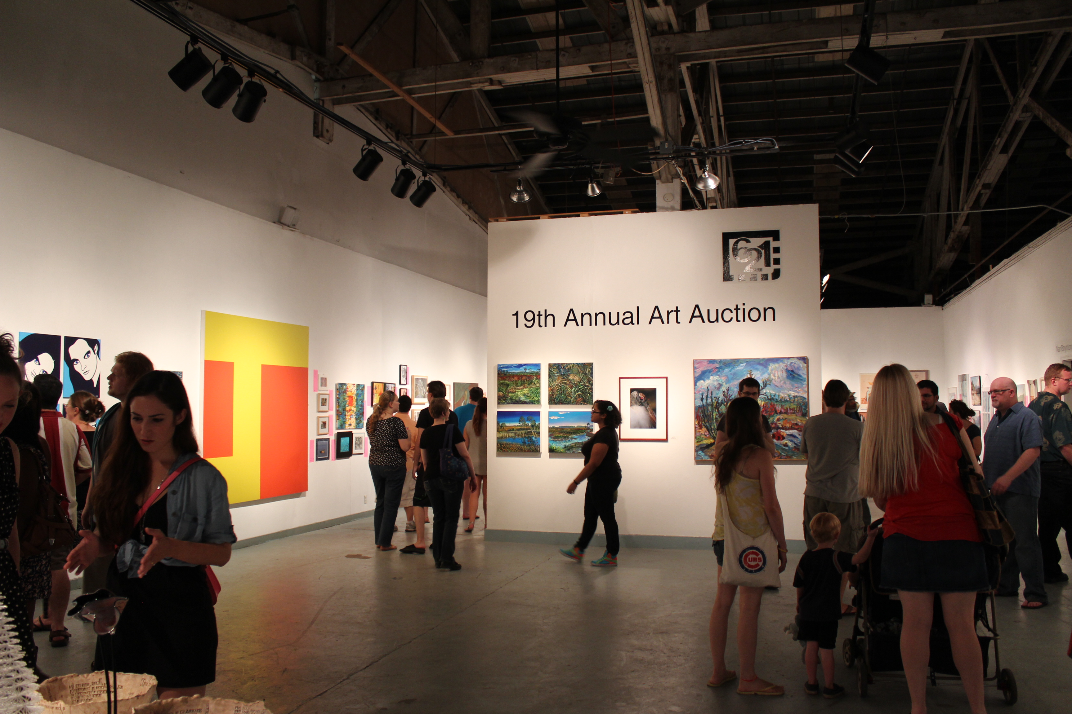 Railroad Square is a popular spot for students and residents of Tallahassee, especially on the first Friday of every month when all the galleries are open to the public.